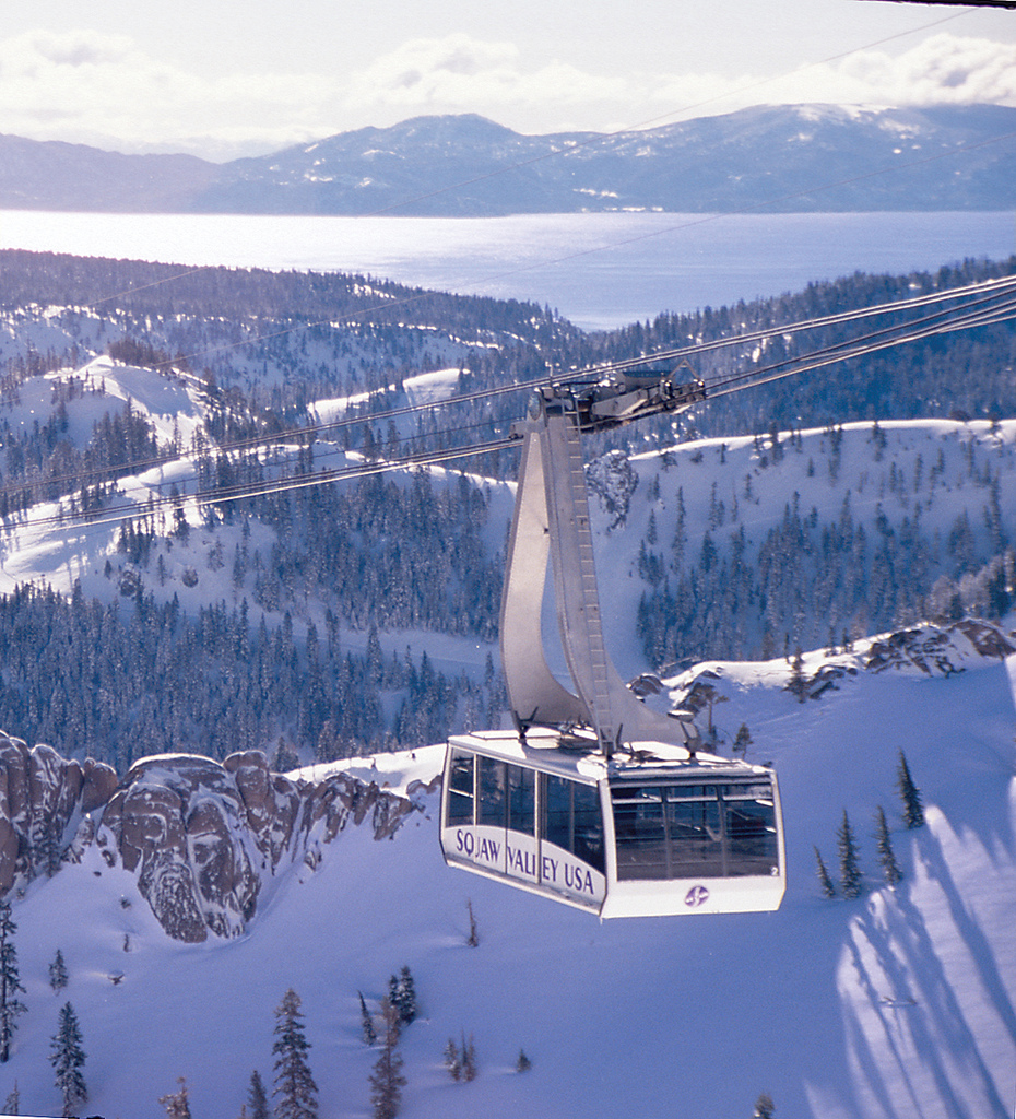 Skiers take the famous Squaw Valley cable car to a Tahoe mountain peak. Ride the gondola in the summer or winter and enjoy views of Lake Tahoe below you.